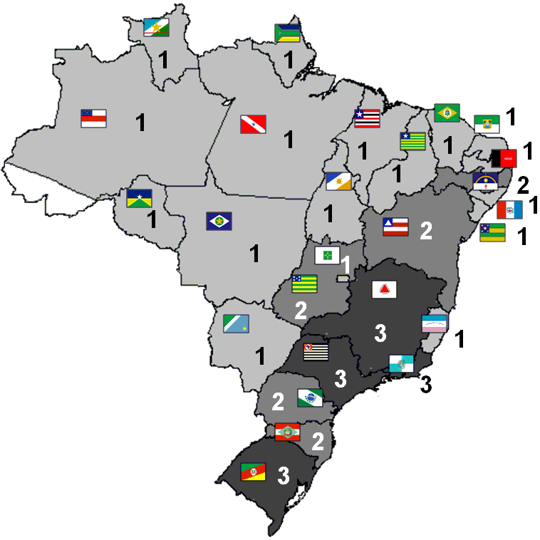 Map showing how many teams each brazilian state have in Campeonato Brasileiro Série D 2009